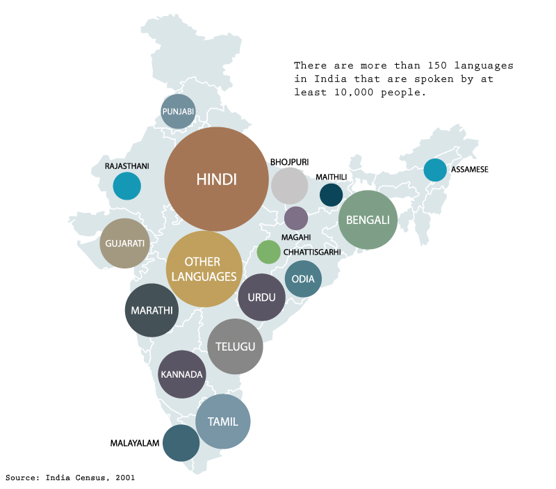 Languages of India